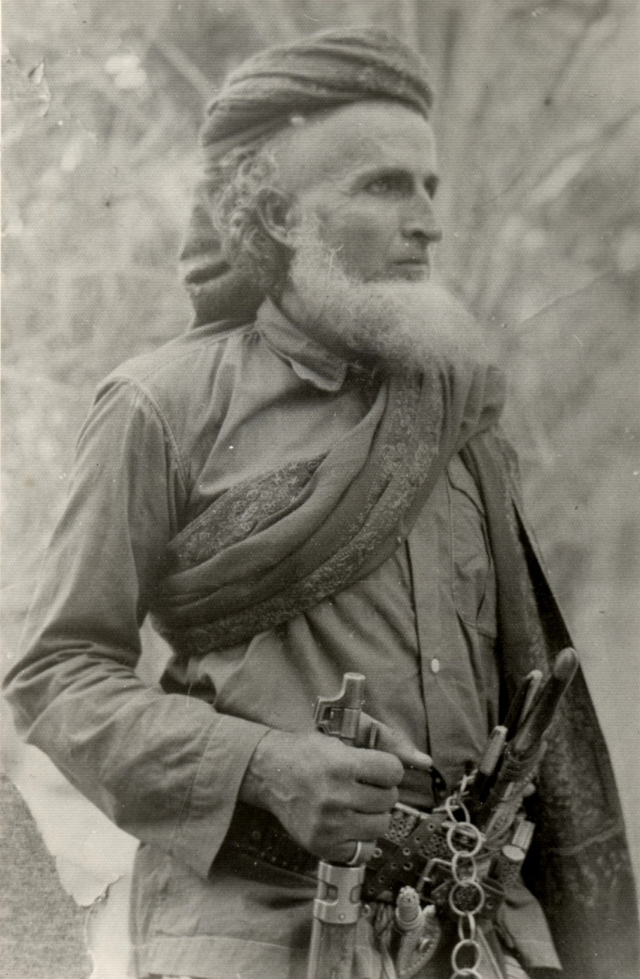 Emir Mubarak ibn saleh al-Duwaily Al-awlaki